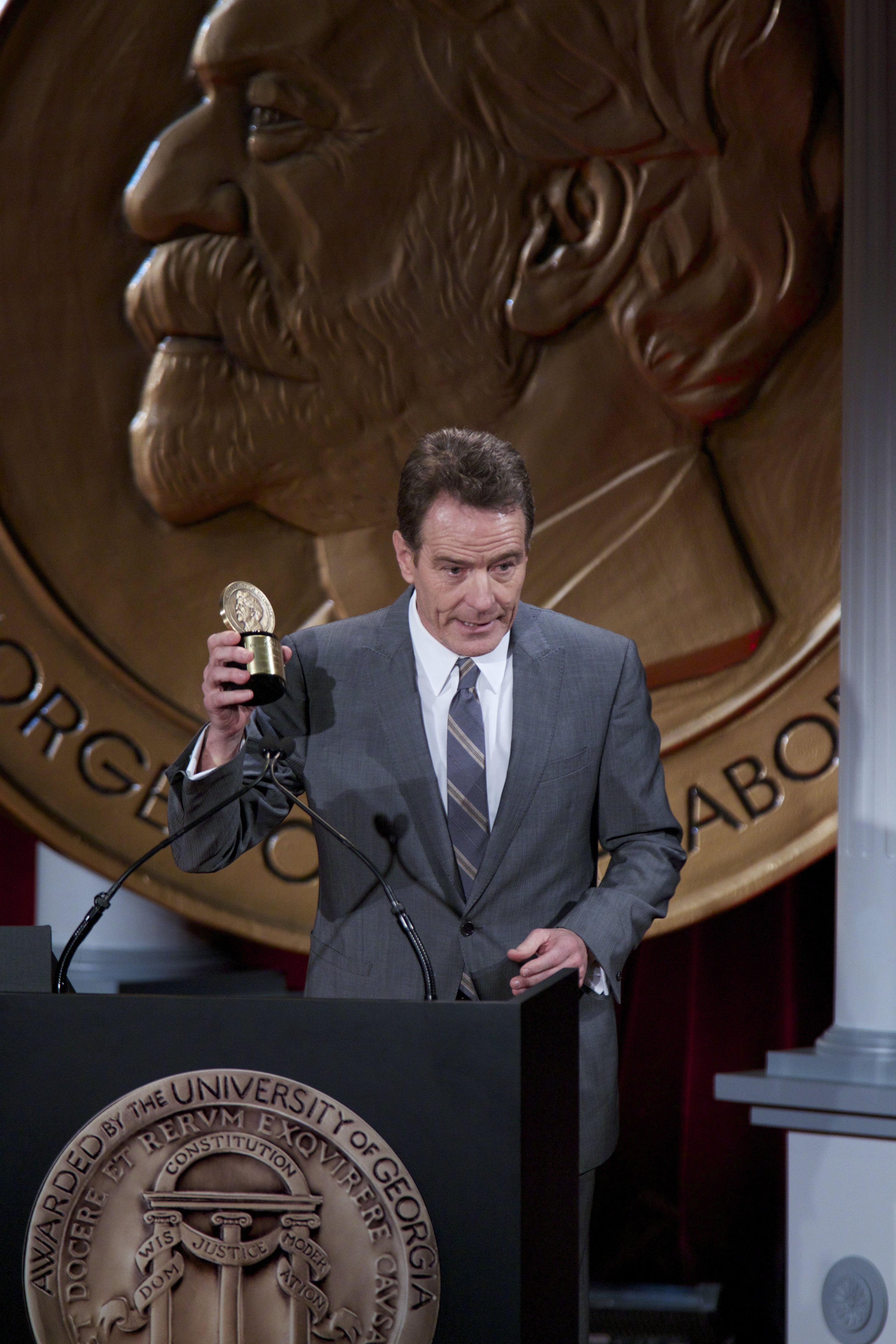 Bryan Cranston accepts the Peabody Award for Breaking Bad.